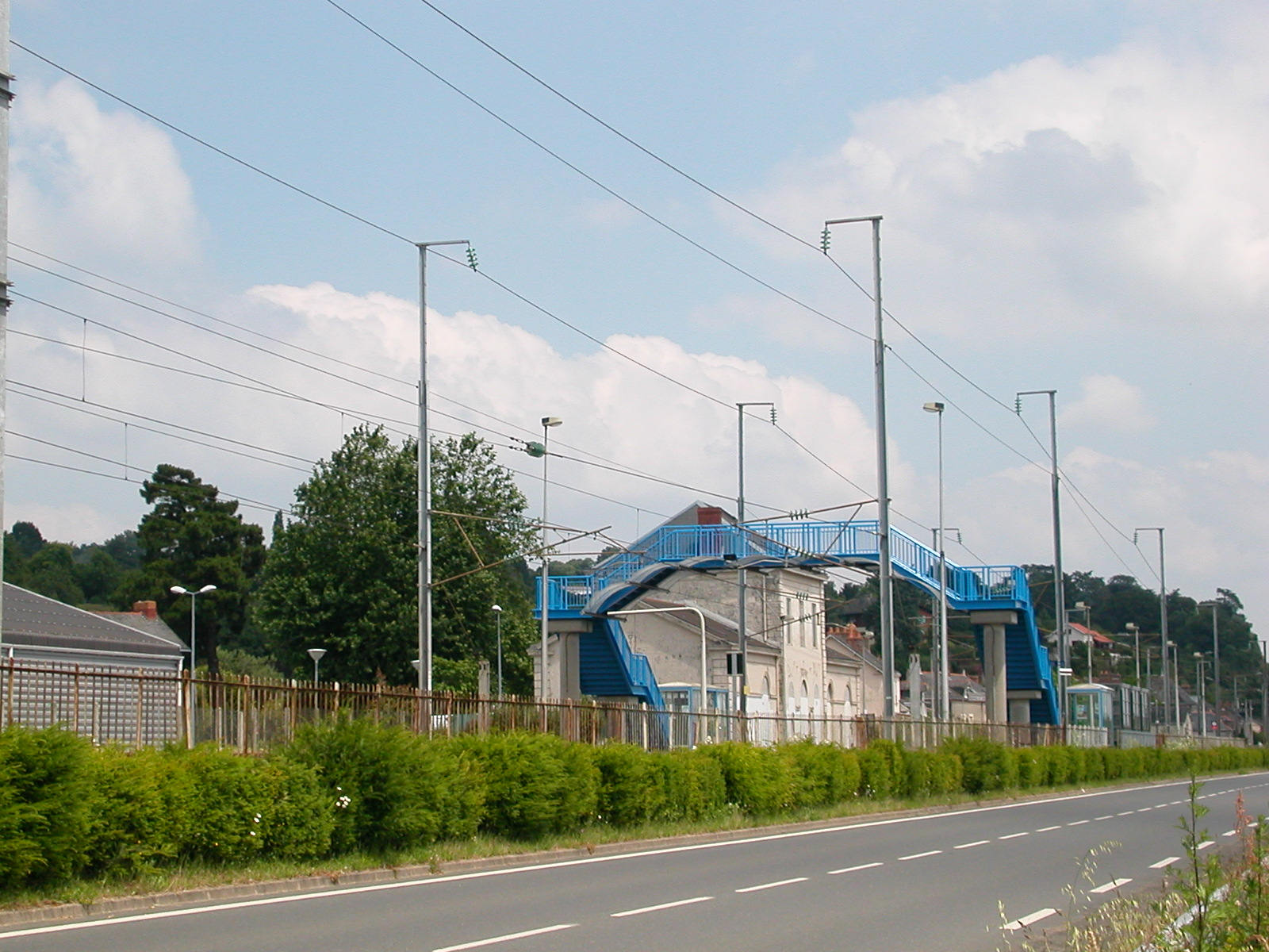 The railway station of Mauves-sur-Loire